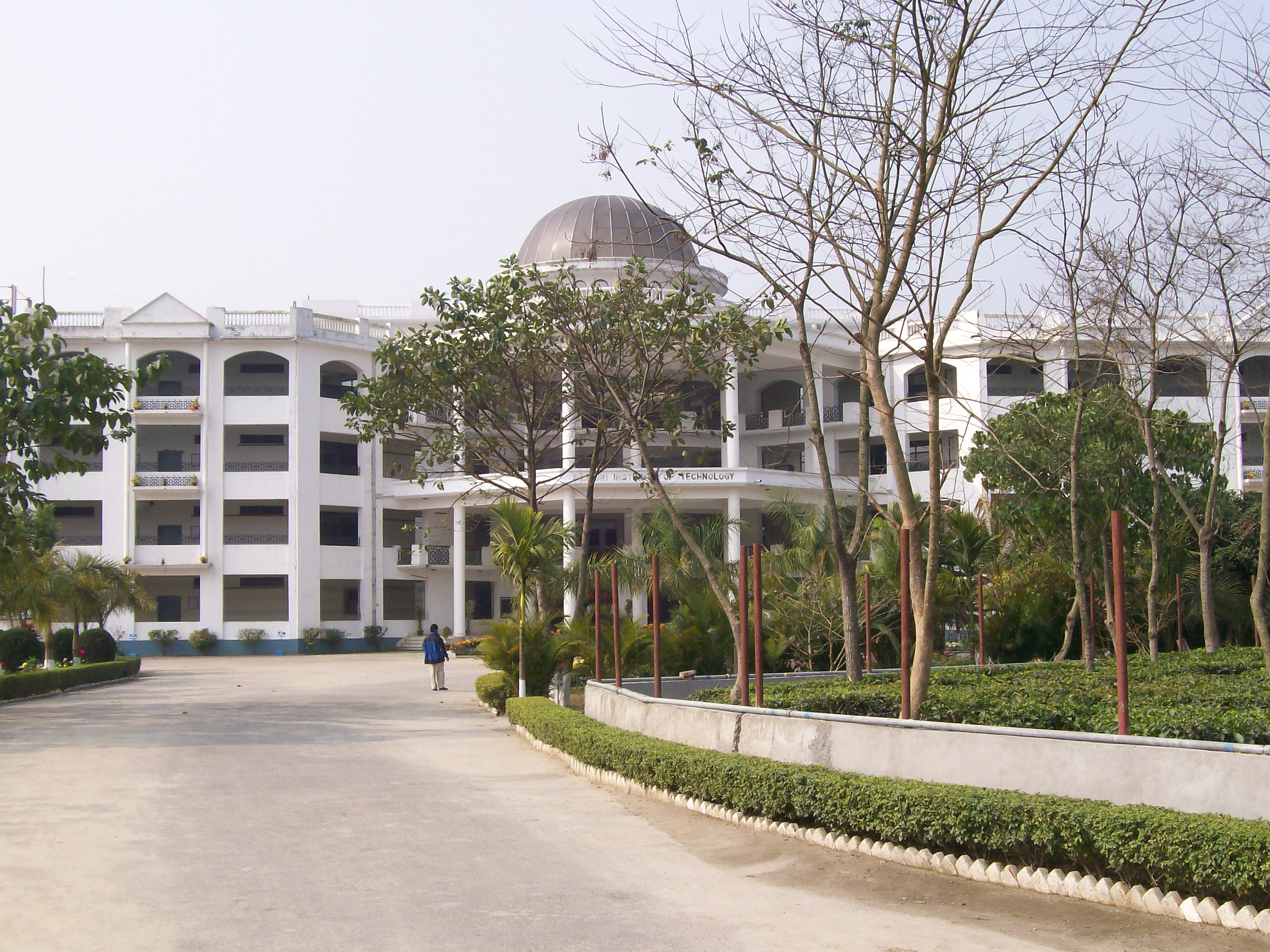 Siliguri Institute of Technology